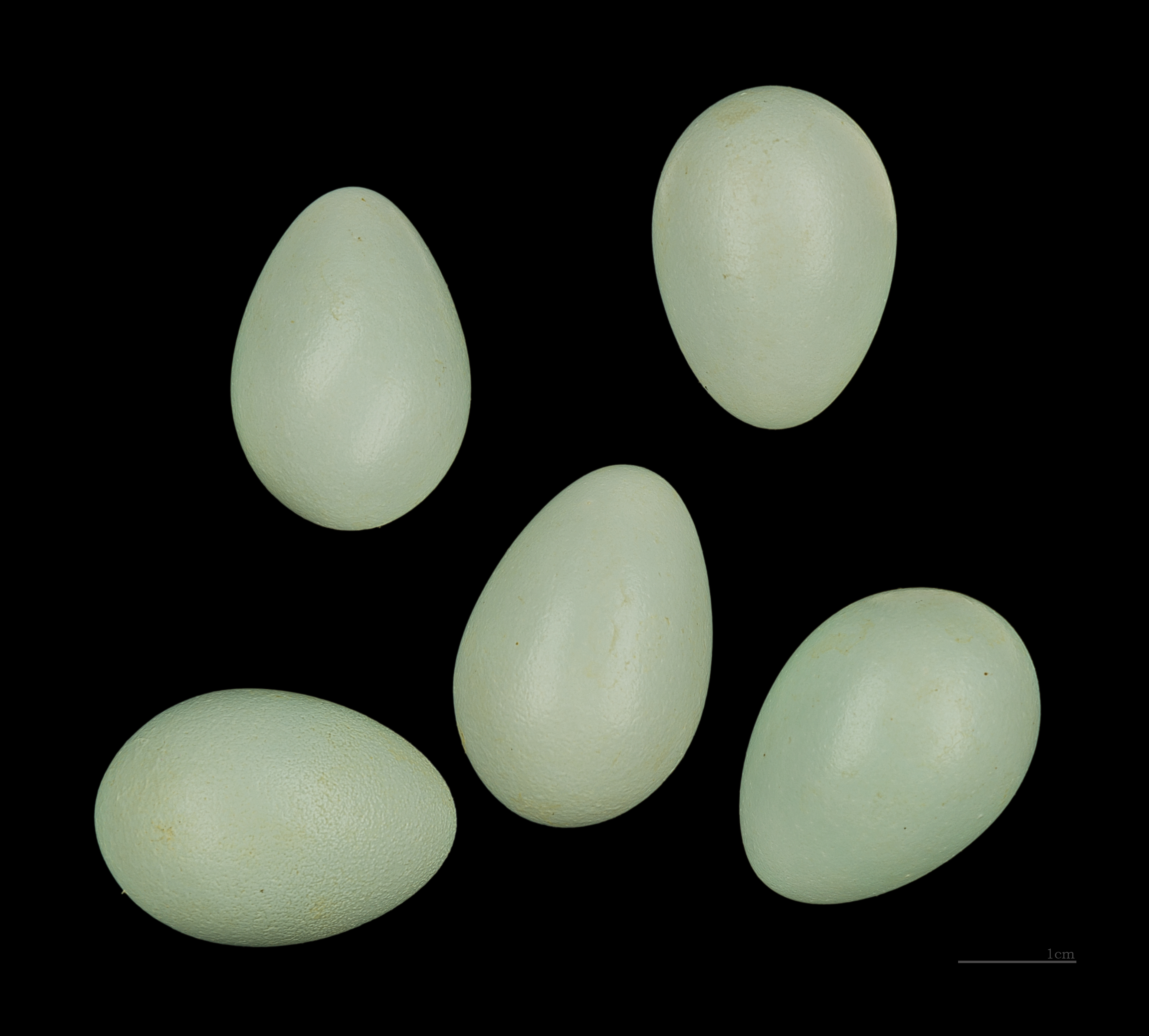 Egg of Spotless Starling. Collection of Jacques Perrin de Brichambaut.